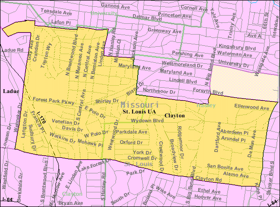 U.S. Census 2000 reference map for Clayton, Missouri